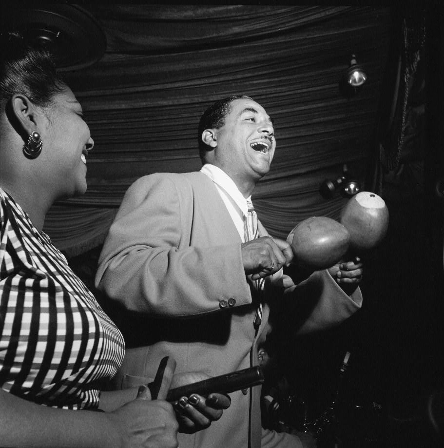 Portrait of Machito and Graciella Grillo, Glen Island Casino, New York, N.Y., ca. July 1947